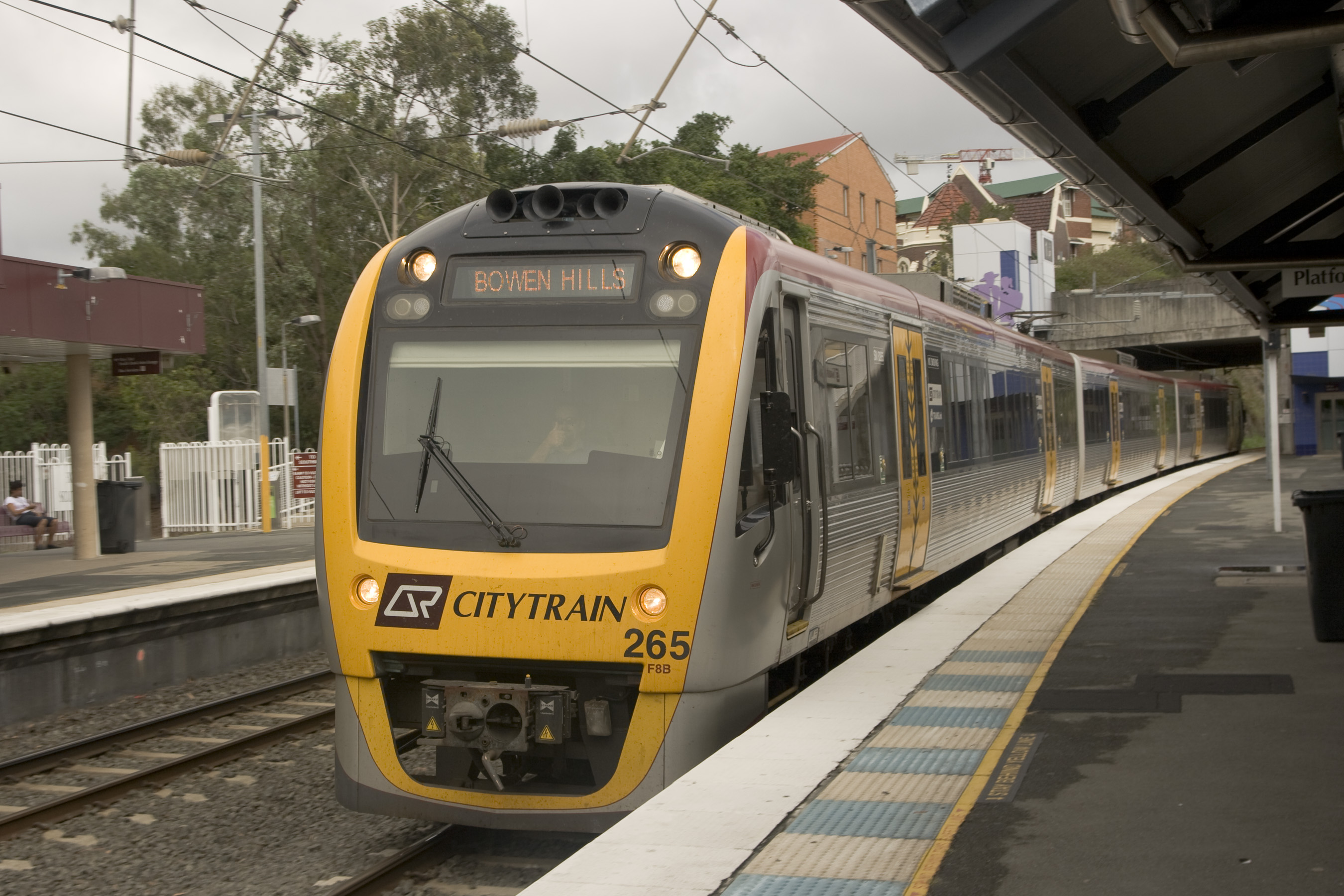 Train on South Bank station, Brisbane